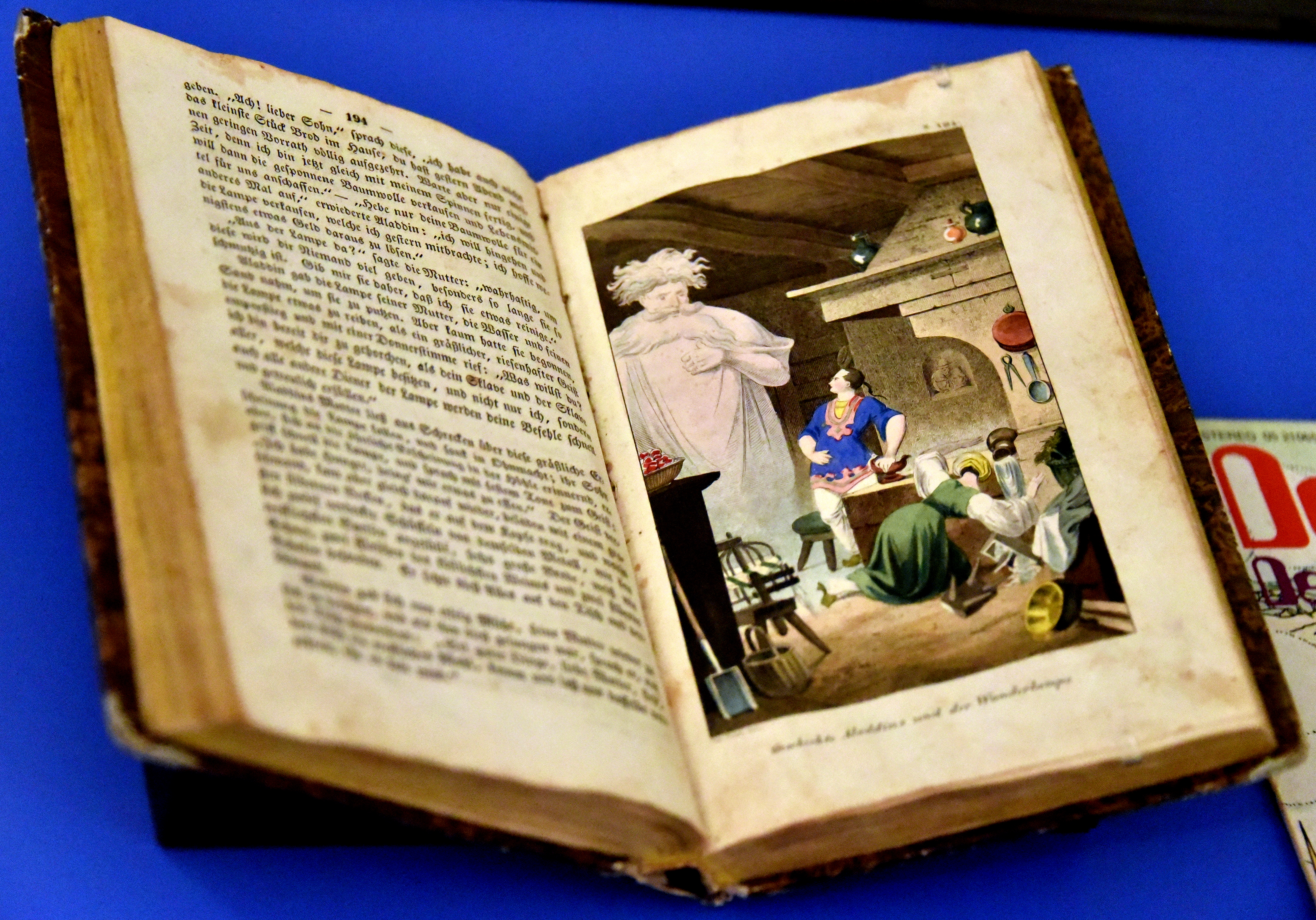 Scheherazade's Tales or One Thousand and One Nights (Mährchen der Shehesarade oder Tausend und Eins Nacht), translated into German by Karl Pfaff, 1838 CE, Stuttgart, with six copperplate prints by Johann Voltz. It was displayed at the Neues Museum in Berlin, Germany, Exhibition of "Cinderella, Sindbad & Sinuhe, Arab-German Storytelling Traditions", April 18, 2019, to August 18, 2019. Berlin State Library, Prussian cultural heritage, Children's and youth book department (Staatsbibliothek zu Berlin, Preußischer Kulturbesitz, Kinder- und Jugendbuchabteillung, 53 MA, 501604 R).